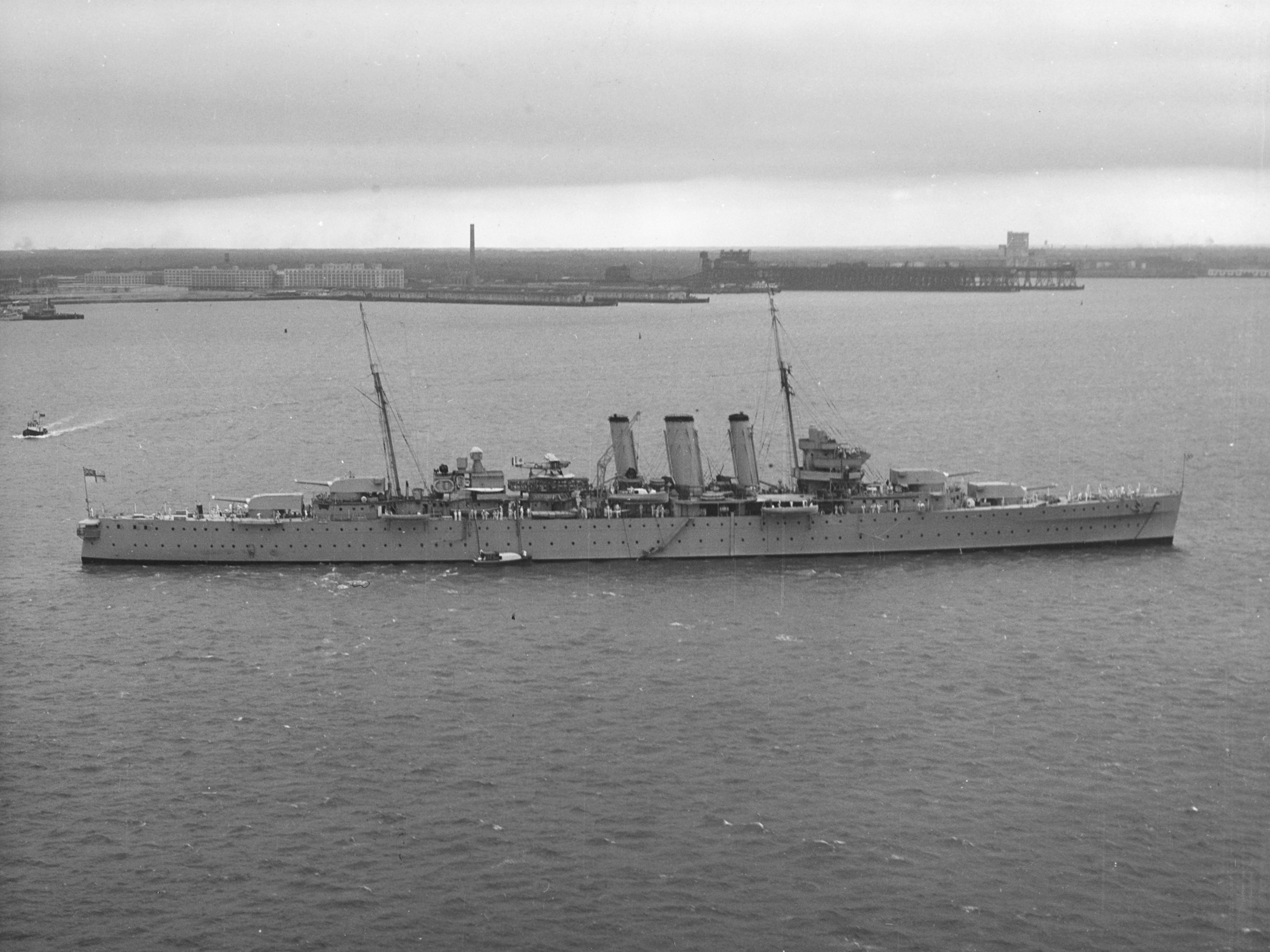 The Royal Navy heavy cruiser HMS Norfolk (78) in Hampton Roads, Virginia (USA), on 29 September 1933.